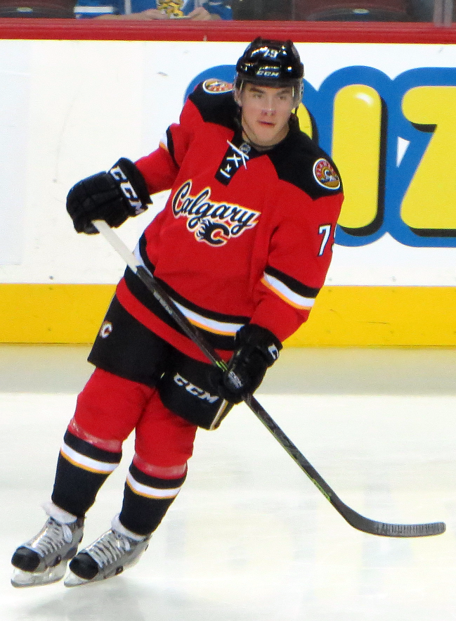 Calgary Flames forward Michael Ferland prior to making his National Hockey League debut against the Nashville Predators.